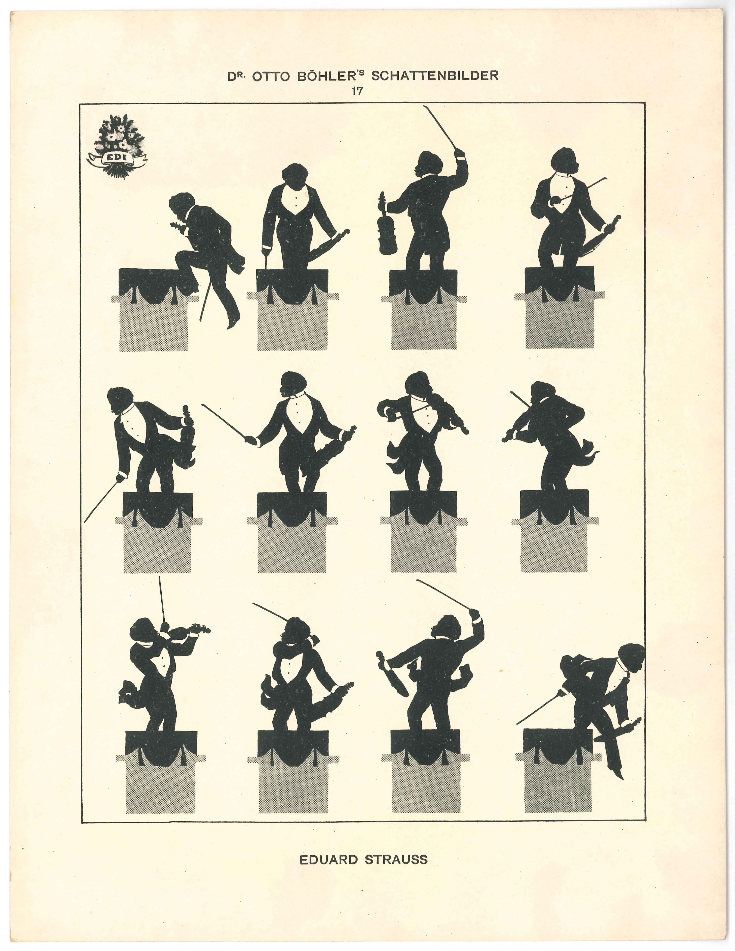 Eduard Strauß, silhouette 20 x 26 cm; photo of Böhler´s silhouette printed on thick card